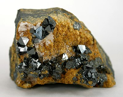 Jacobsite Locality: Wessels Mine (Wessel's Mine), Hotazel, Kalahari manganese fields, Northern Cape Province, South Africa (Locality at ) Size: miniature, 5 x 4 x 3.25 cm JACOBSITE with crystals to 6mm BRIGHT crystals that are so sharp and lustorus you would think them to be magnetite...for quality, amazing for the species. Additionally, for both isolation and aesthetics, this is a superior miniature display specimen of the species. Taken together, Charlie felt this was the finest example he had seen in his decades in South African mineral dealing.